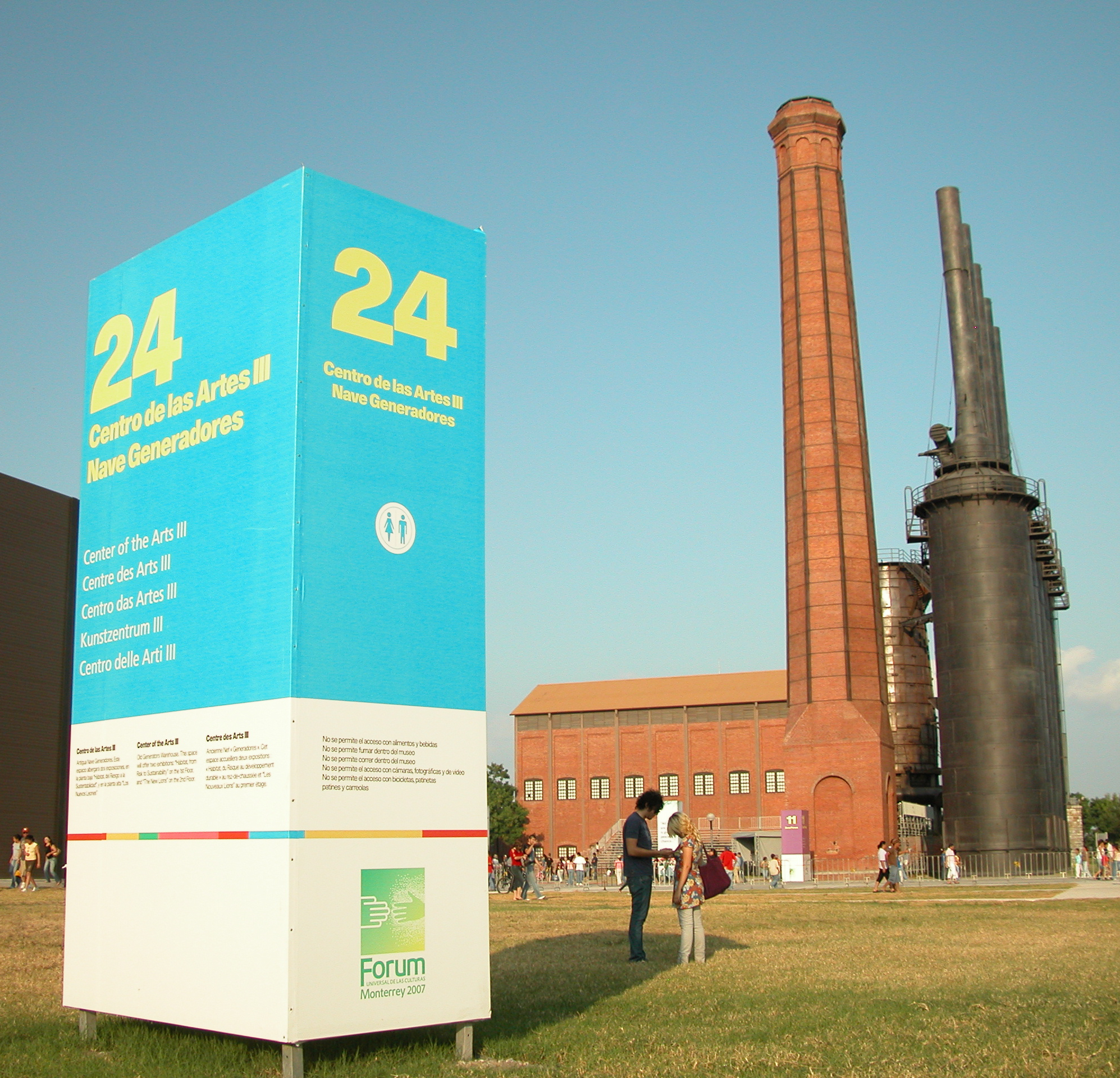 "Fundidora" Park in Monterrey Mexico